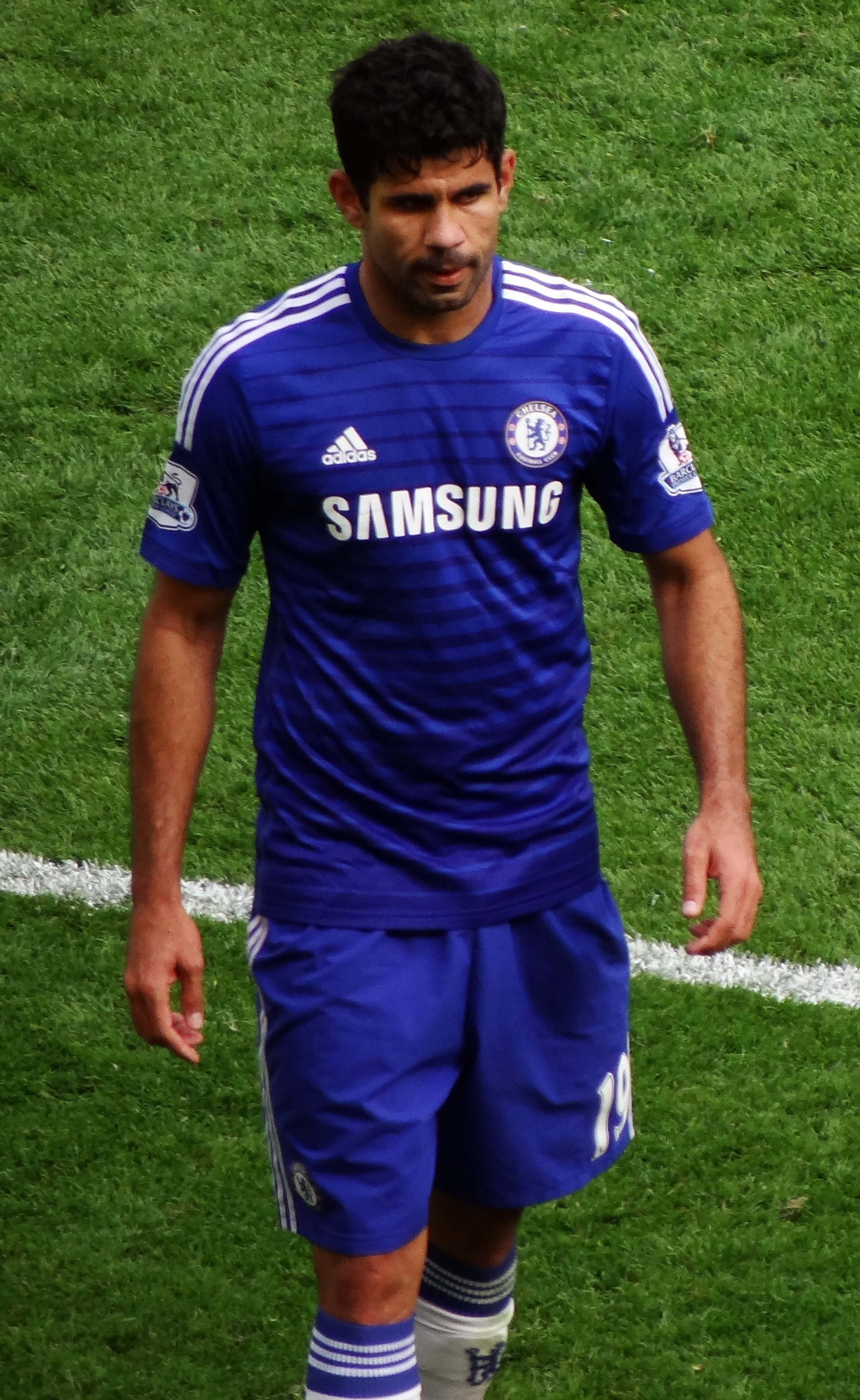 Diego Costa playing for Chelsea FC